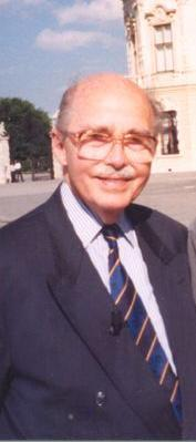 Otto von Habsburg-Lothringen, head of the House of Habsburg-Lorraine. Taken at the Upper Belvedere during a TV interview.